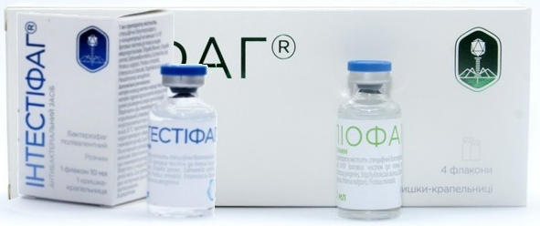 pharmex phages